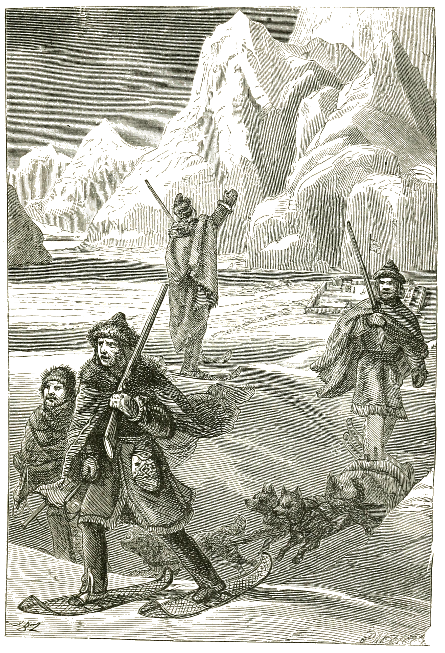 Caption: Frank's Farewell to Ungava